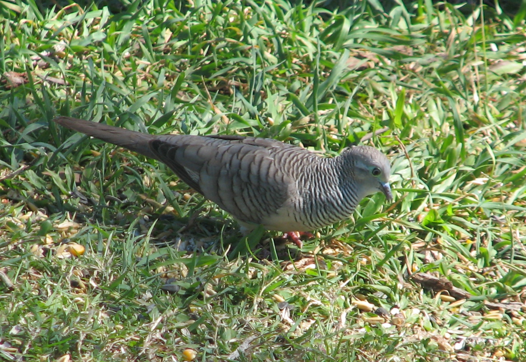 Peaceful Dove found at Lake Awoonga